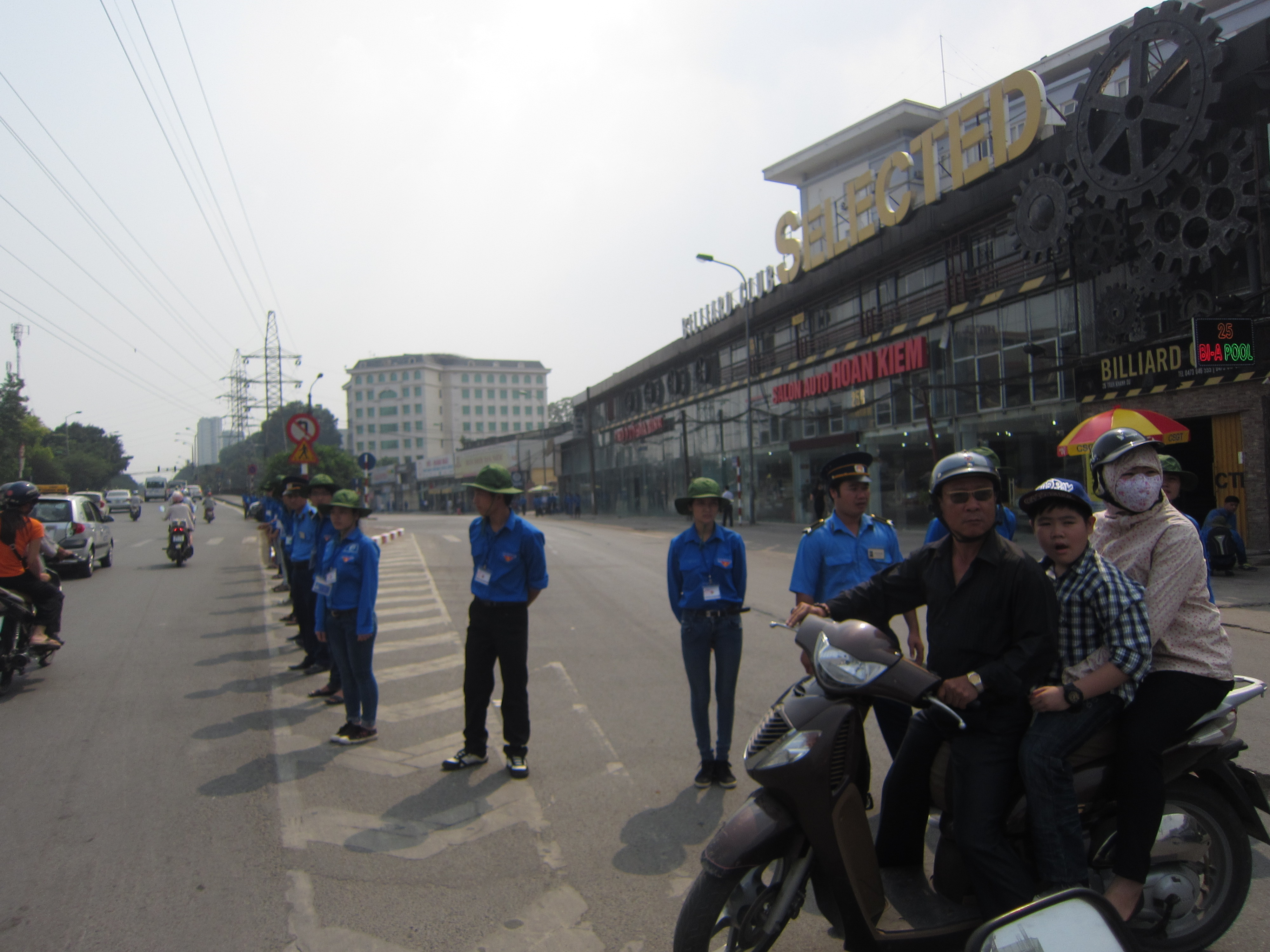 Hanoi volunteers in funeral of Vo Nguyen Giap